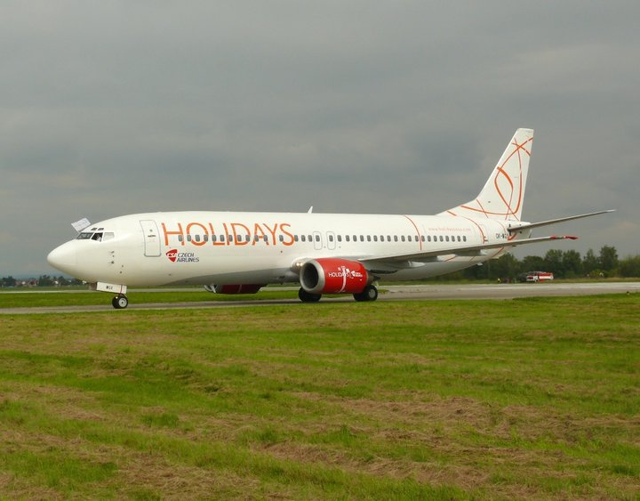 Boeing 737-400 CSA Holidays on LKHK